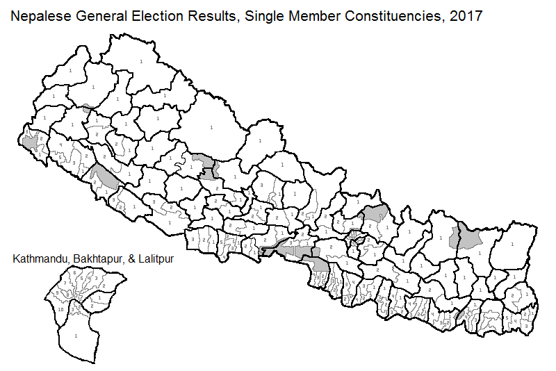 Nepal's single member parliamentary constituencies as of 2017. Numbers indicate constituency number within district.